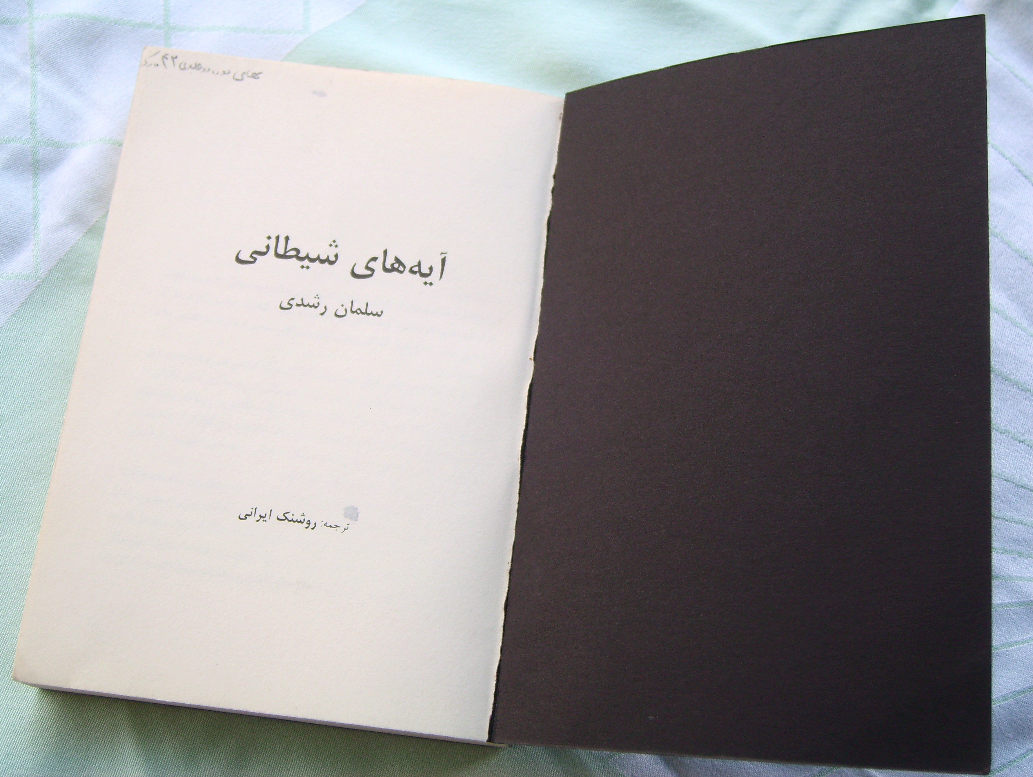 illegal Iranian edition of Salman Rushdie's The Satanic Verses, first published in English in 1988. The translator "Roshanak Irani" is an open Pseudonym. The preface, signed by her, refers to the Satanic Verses as a book comparable to the Arabian Nights, a modern epic, a work of magic realism like the novels of Garcia Marquez - indications of a 1990s reading.